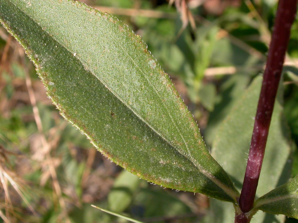 At least the lower leaves are opposite. The venation is often approximately palmate in the lower part of the leaf and pinnate in the upper part.